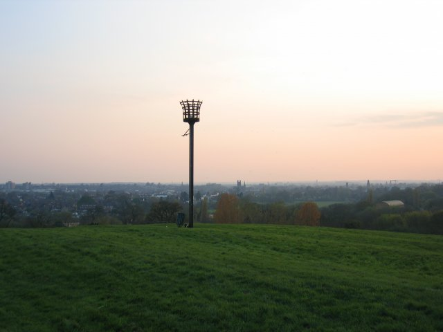 Beacon, Newbold Comyn. The fire basket of the beacon with Leamington Spa in the distance against an evening sky.